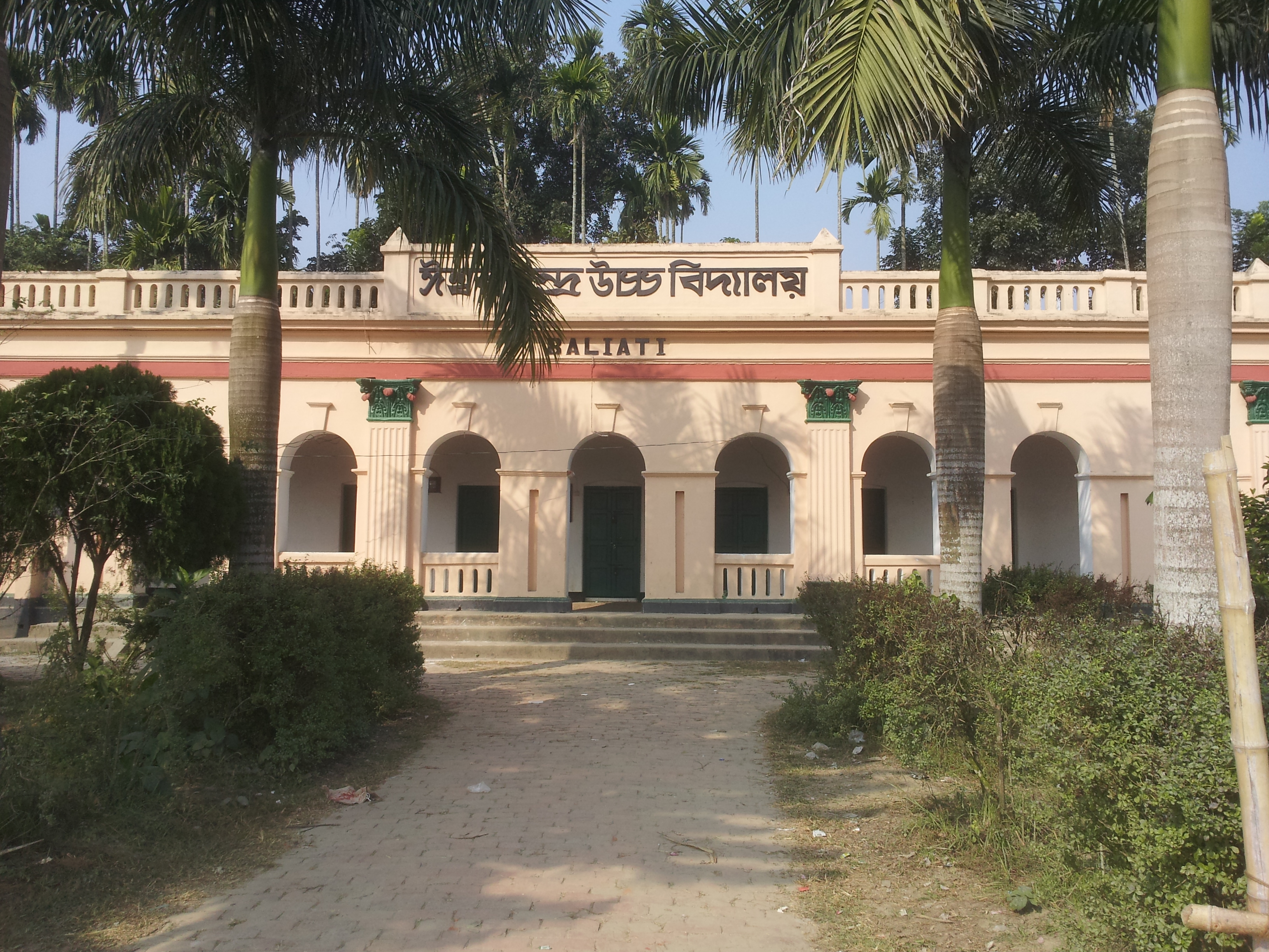 Ishwar chandra high school, Saturia, Manikgonj.